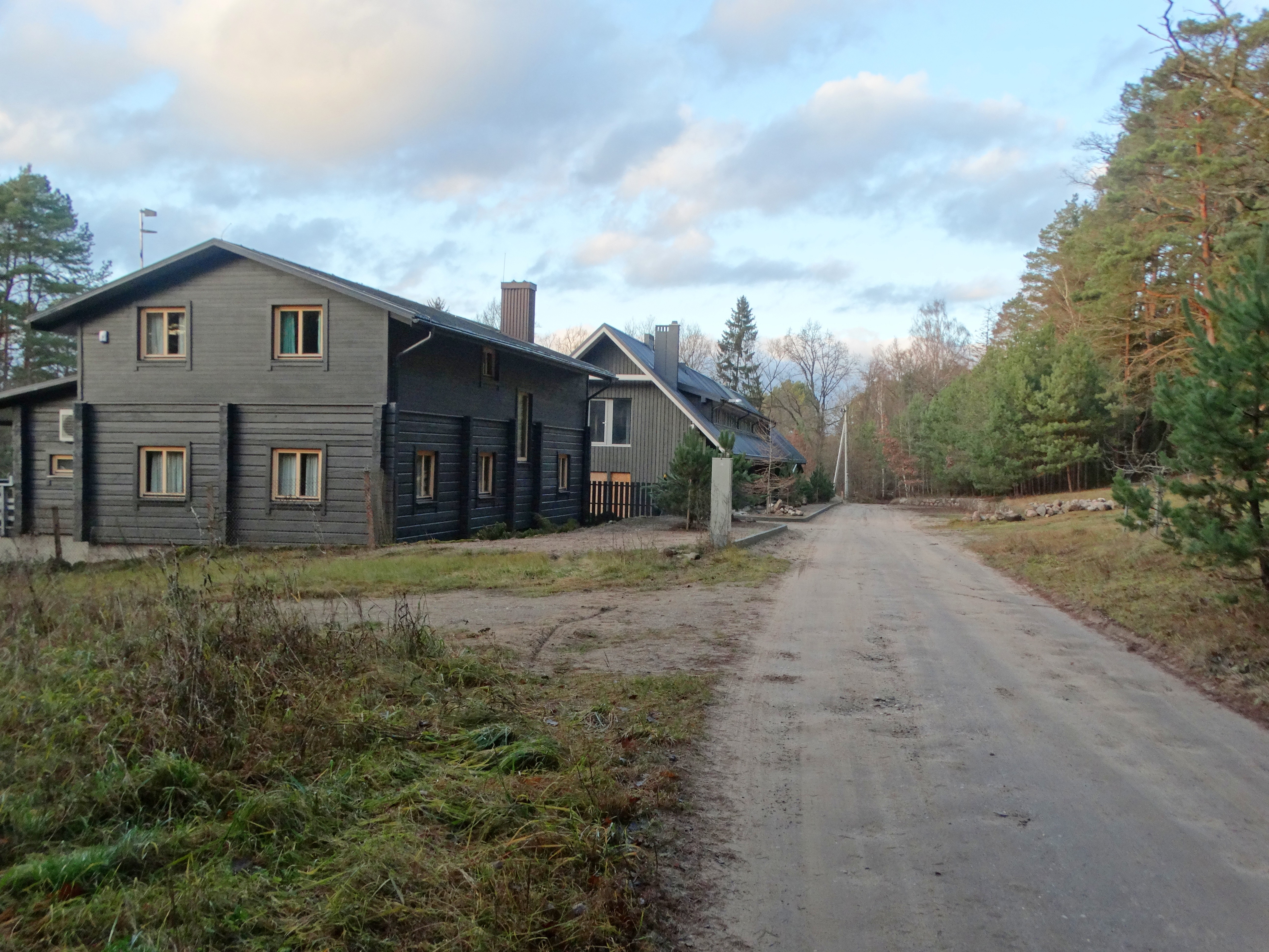 Paštuva, Kaunas District, Lithuania